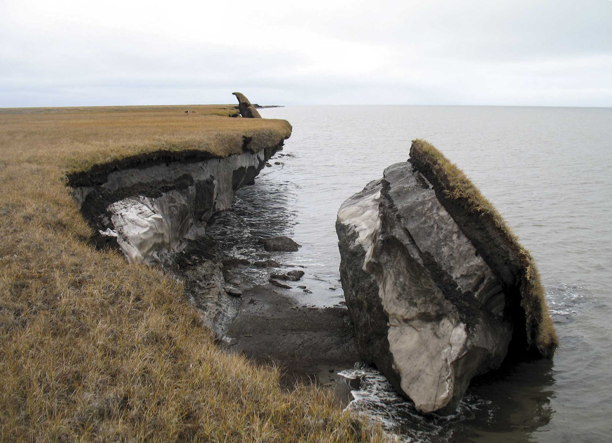 In this photo you can see a collapsed block of ice-rich permafrost along Drew Point, Alaska. Coastal bluffs in this region can erode 20 meters/year (~65 feet). USGS scientists continually research the causes of major permafrost thaw and bluff retreat along the Arctic coast of Alaska. In addition, with the loss of sea ice to protect the beaches from ocean waves, salt water inundates the coastal habitats.